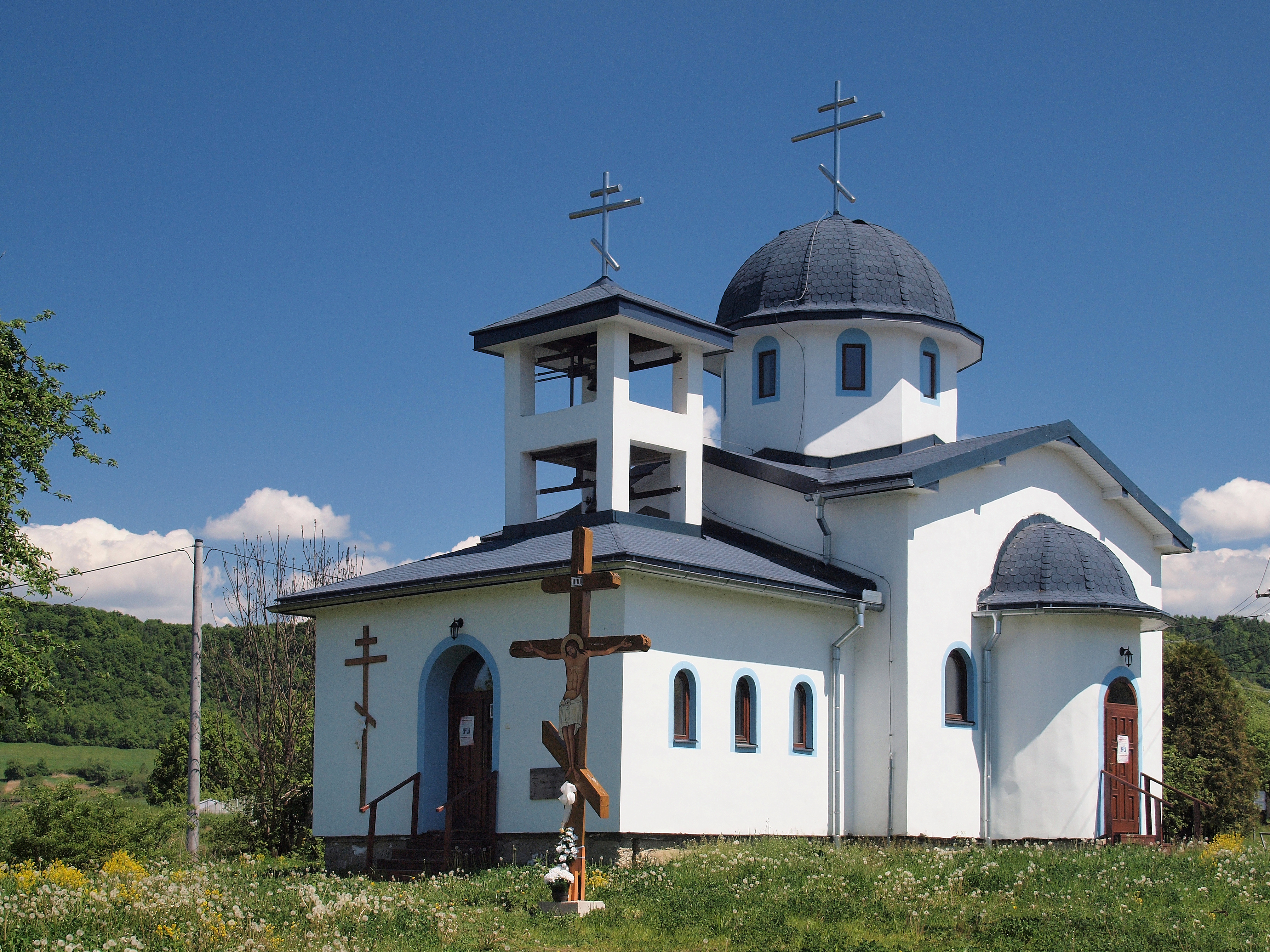 Hostovice, Snina District - Prešov (Slovakia) - The orthodox church of Pokrova Presvätej Bohorodičky